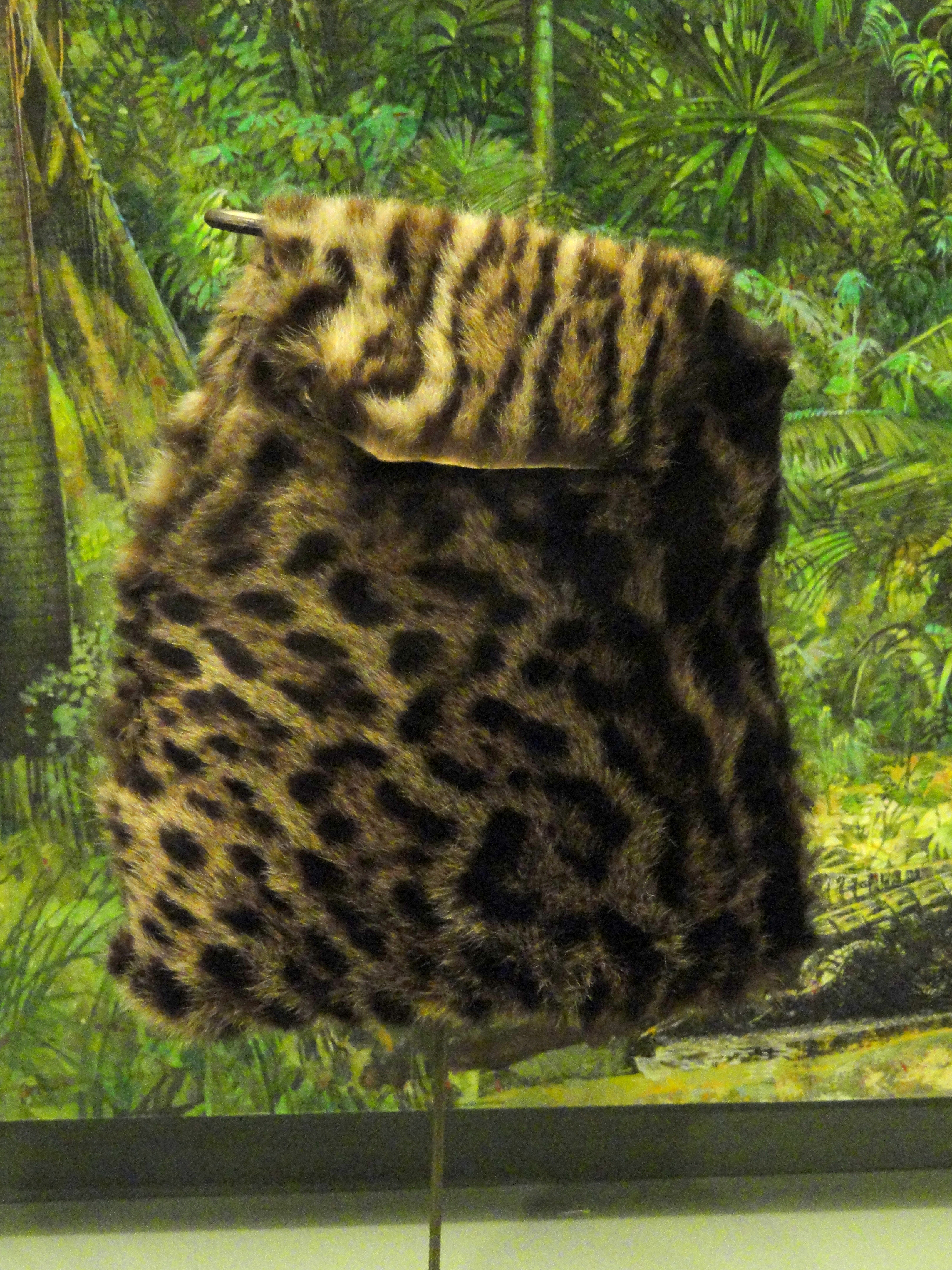 Exhibit in the South American collection of the American Museum of Natural History, Manhattan, New York City, New York, USA.